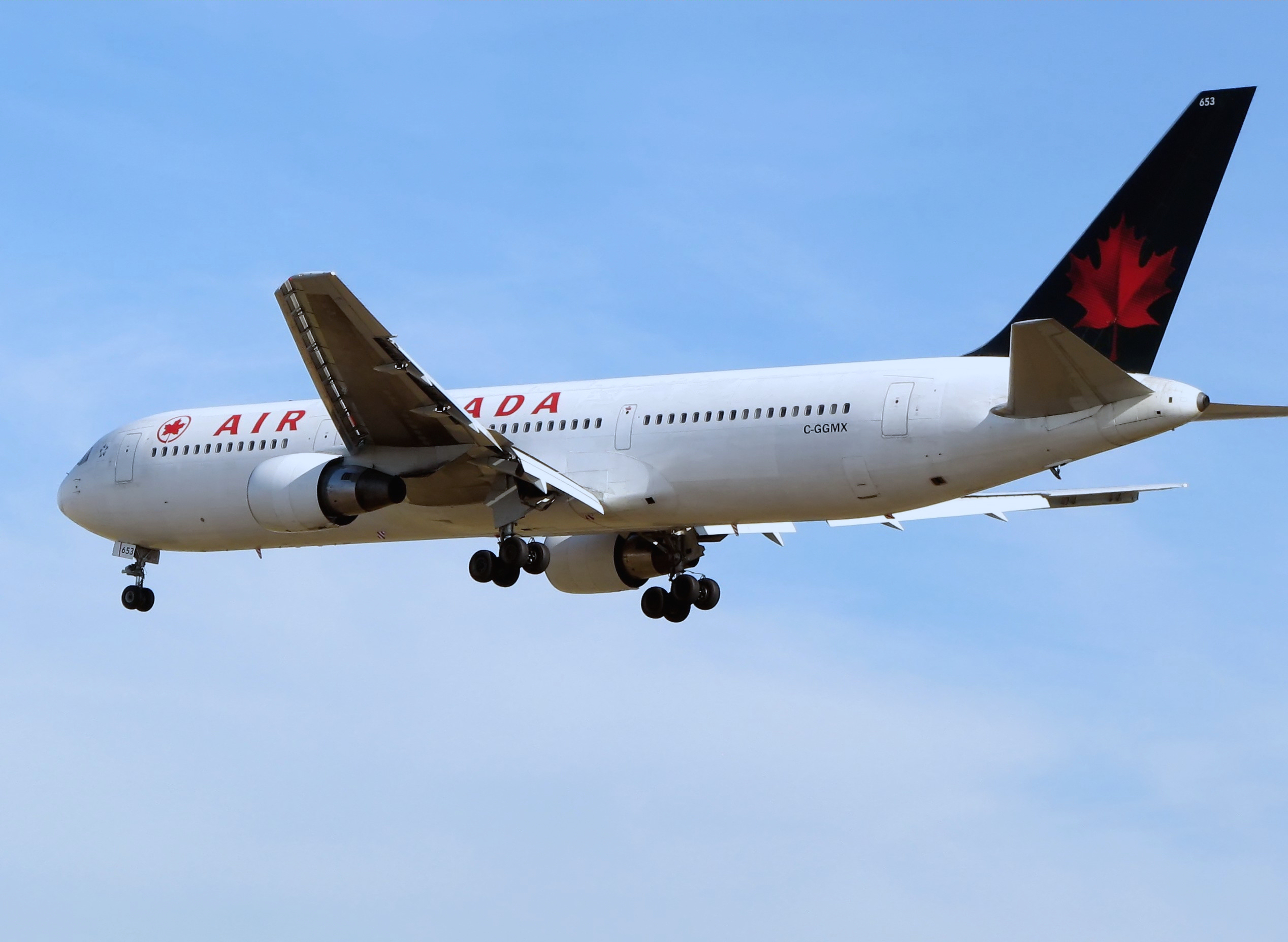 Air Canada Boeing 767-300ER (C-GGMX) in a superseded livery, lands at London Heathrow Airport.